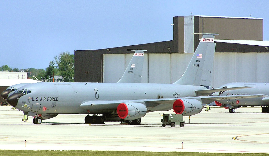 128th Air Refueling Wing KC-135s General Mitchell ANGB Wisconsin Air National Guard